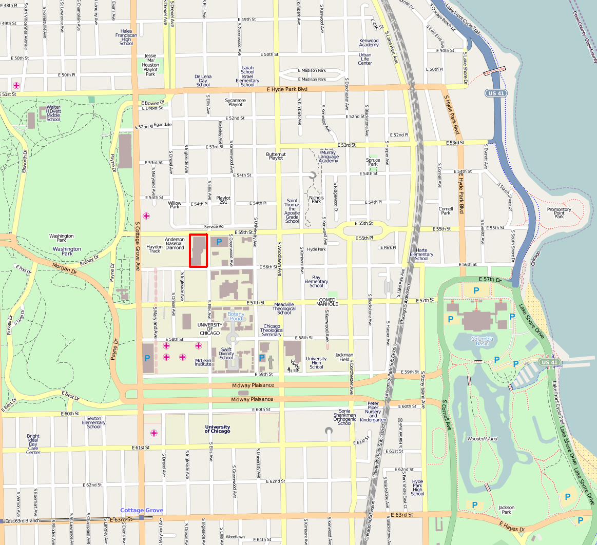 Map with Ratner Center location in Chicago This map may be incomplete, and may contain errors. Don't rely solely on it for navigation.